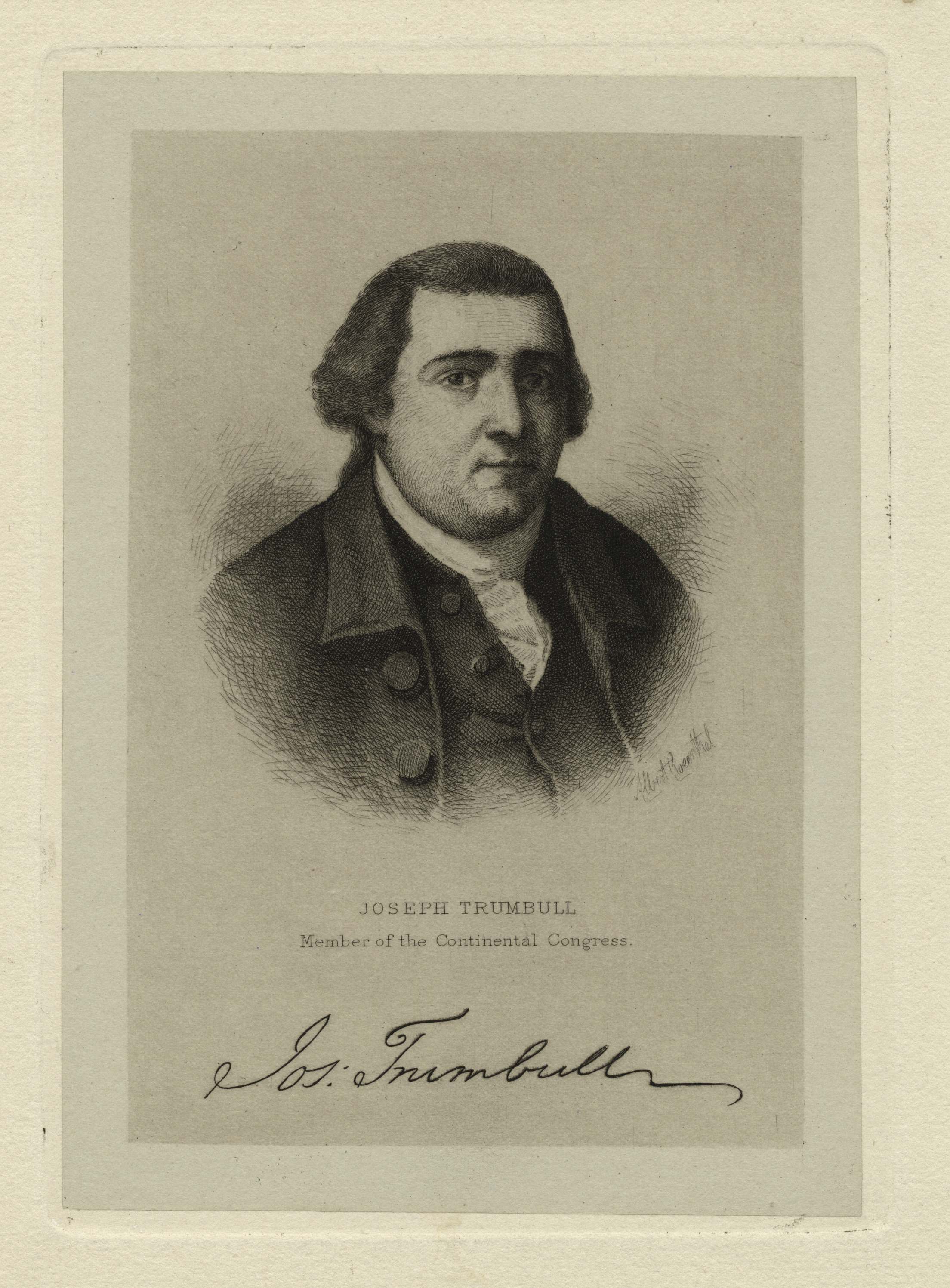 Printmakers include Asher B. Durand, Henry Bryan Hall, Albert Rosenthal and Max Rosenthal. Draughtsmen include David McNeely Stauffer. Title from Calendar of Emmet Collection. Includes some photomechanical reproductions. Citation/reference : EM263